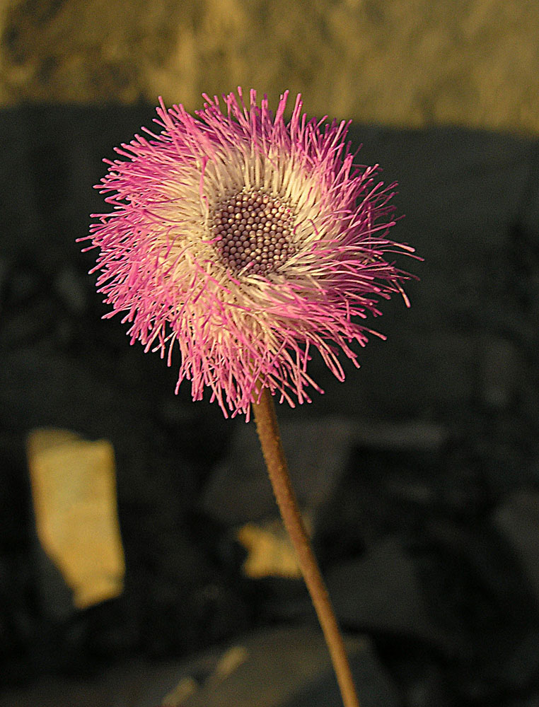 As the name would suggest, Coastal Hofmeisteria is found near coastlines, largely in Baja California. Photo from San Pedritos Beach.